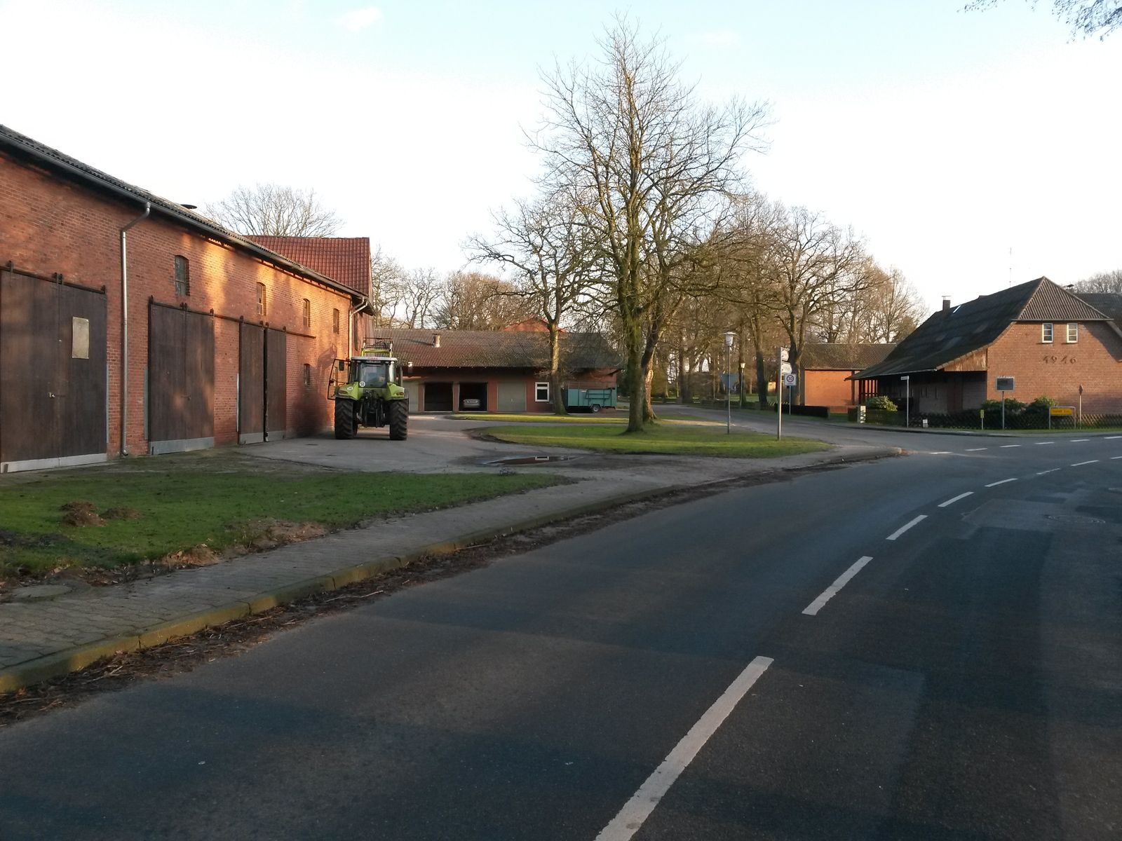 Dohren Farmyard